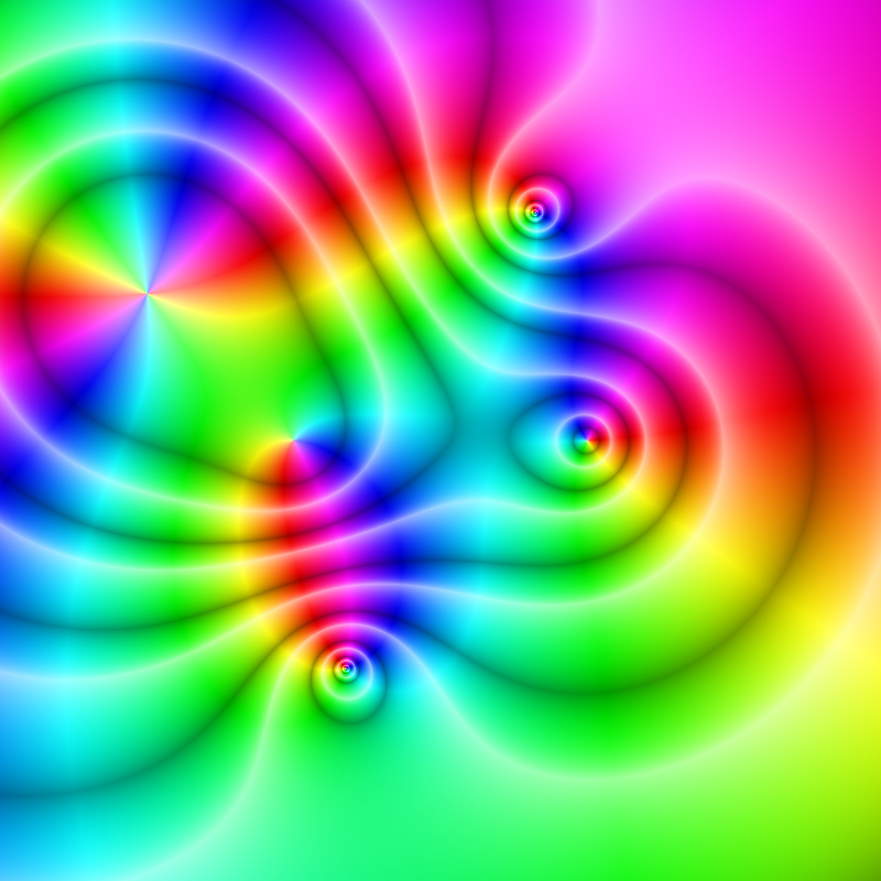 Color plot of complex function (x^2-1) * (x-2-I)^2 / (x^2+2+2I), hue represents the argument, sat and value represents the modulus